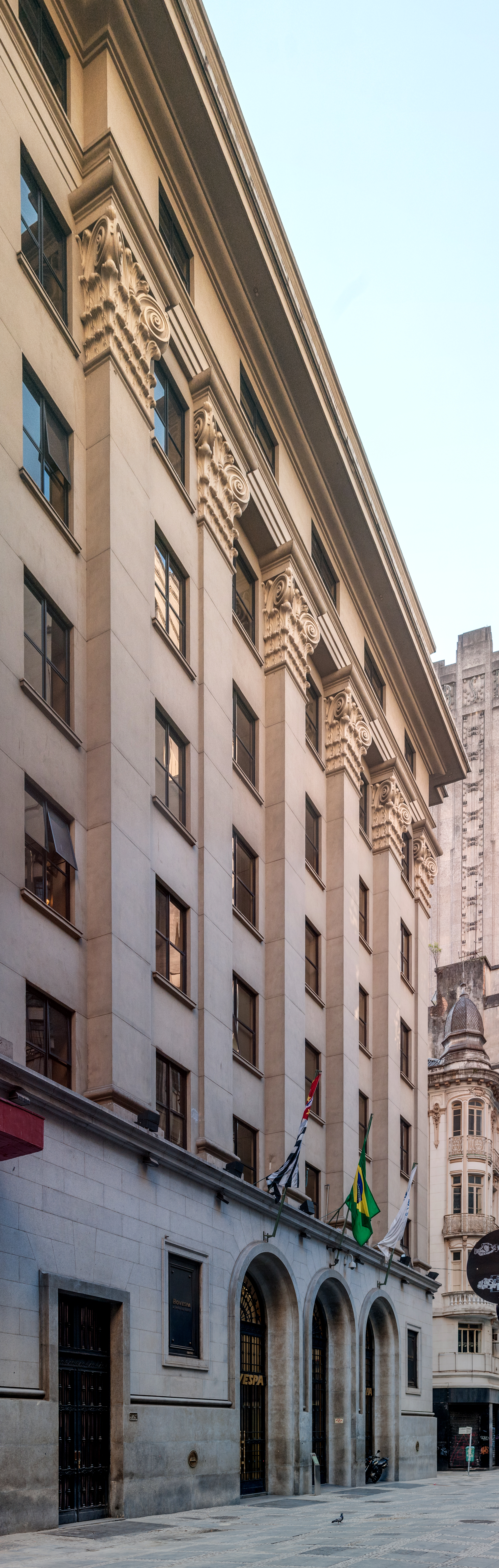 São Paulo Stock Exchange Bovespa Building